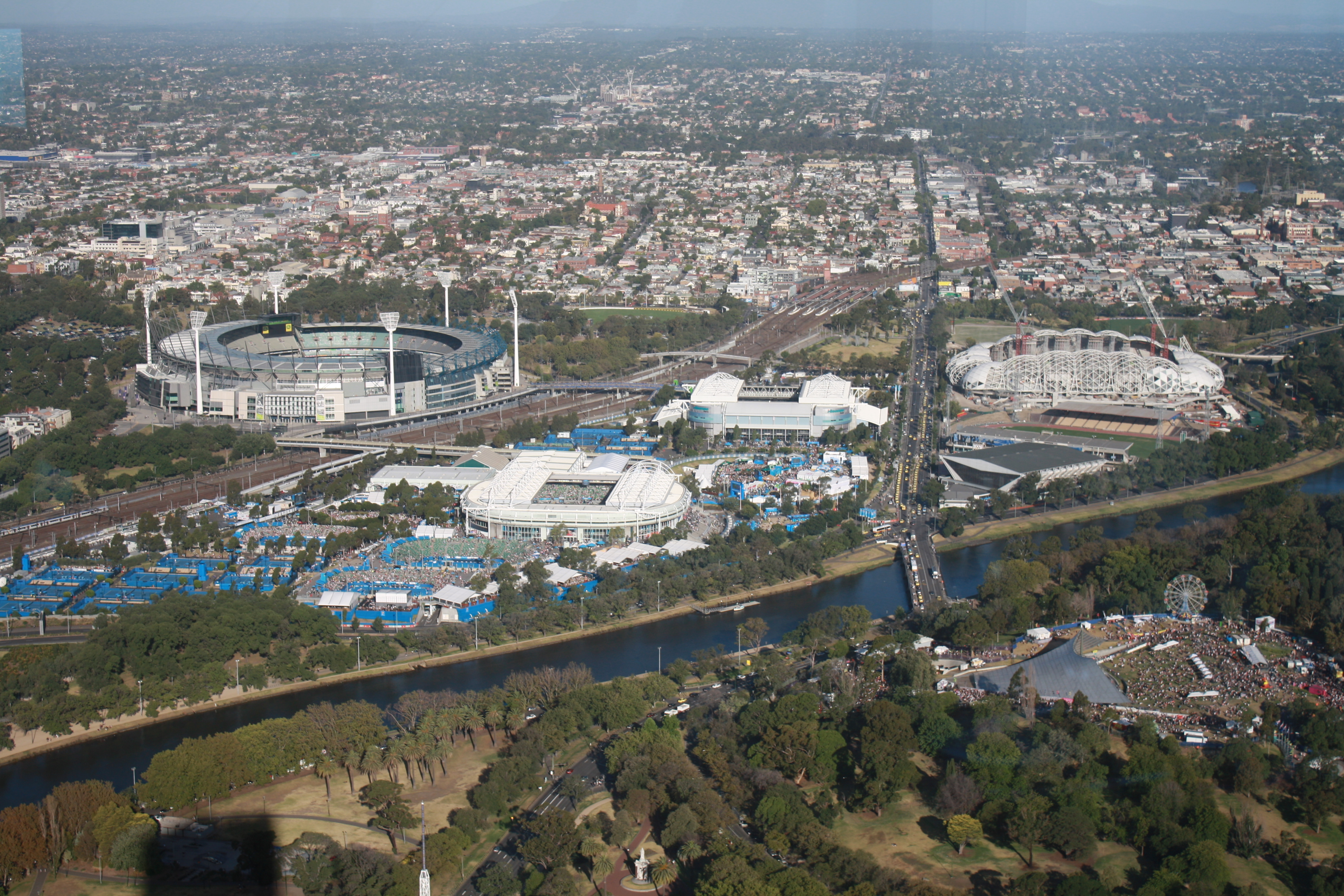 Melbourne Sports and Entertainment Precinct, containing Melbourne Park and Olympic Park in 2010. Also visable is Yarra Park which is the area around the MCG.